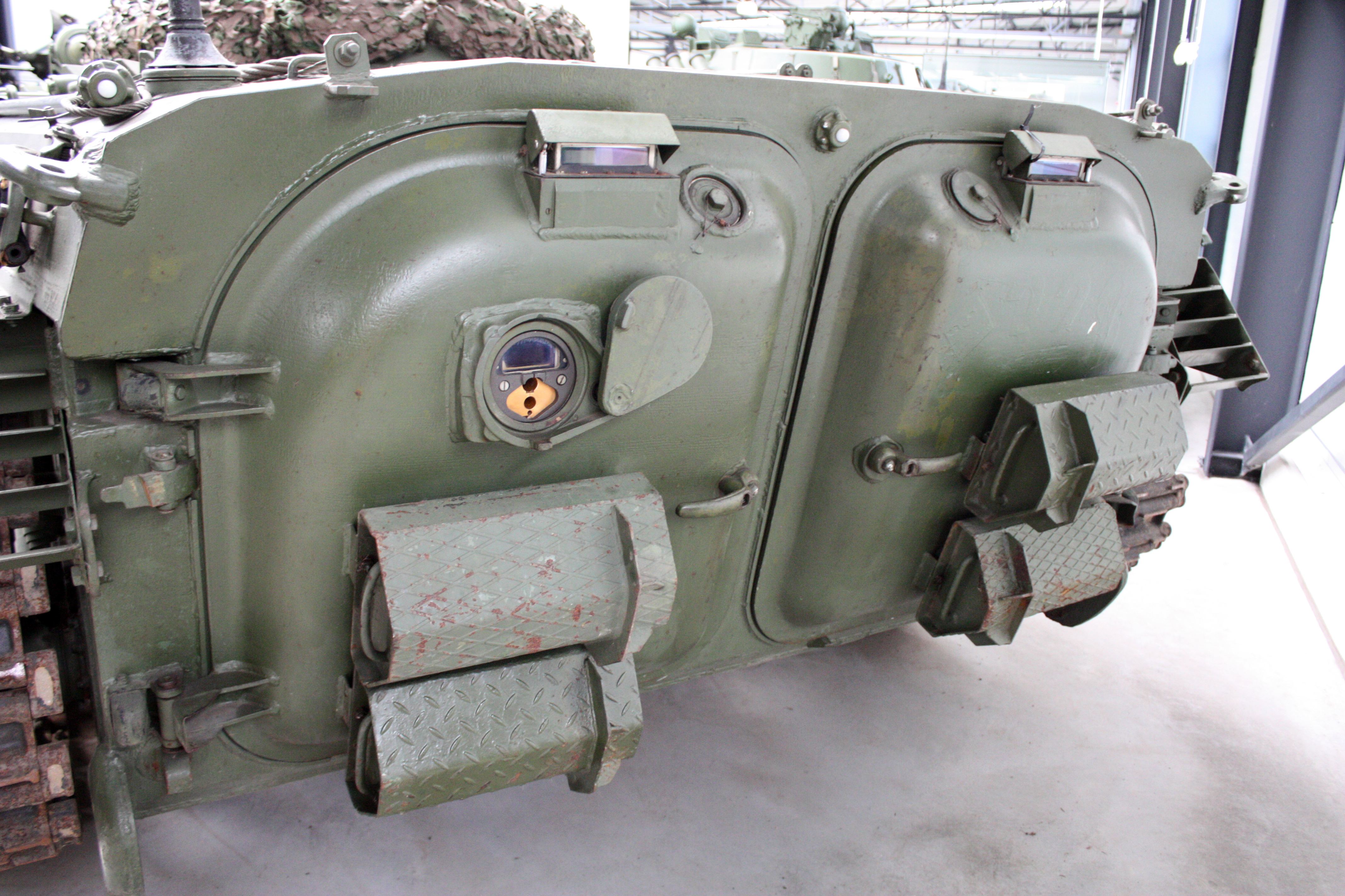 German Tank Museum